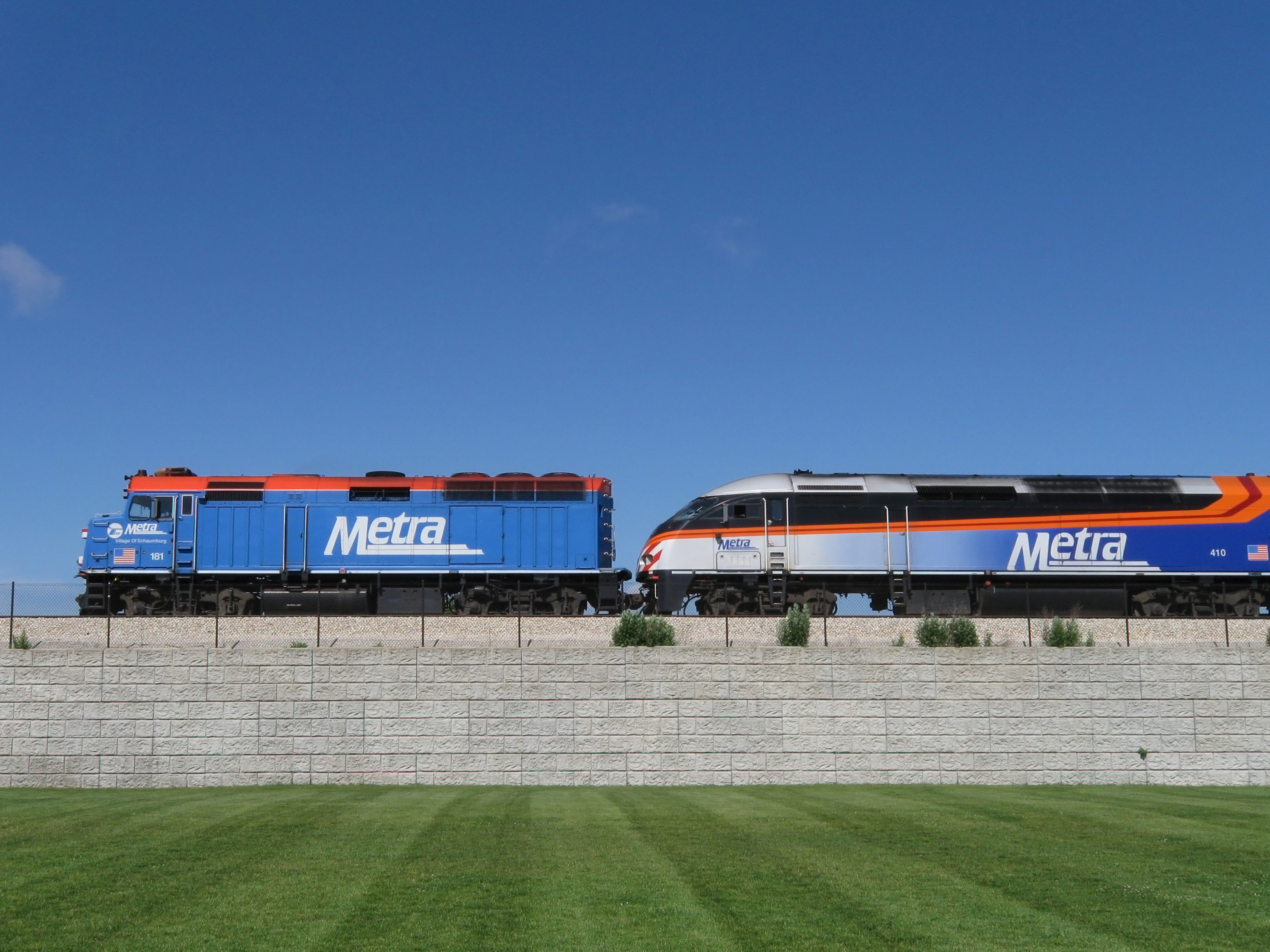 Metra F40PH-2 locomotive #181 & MP36PH-3S locomotive #410 near Stuart Field in Chicago, USA.